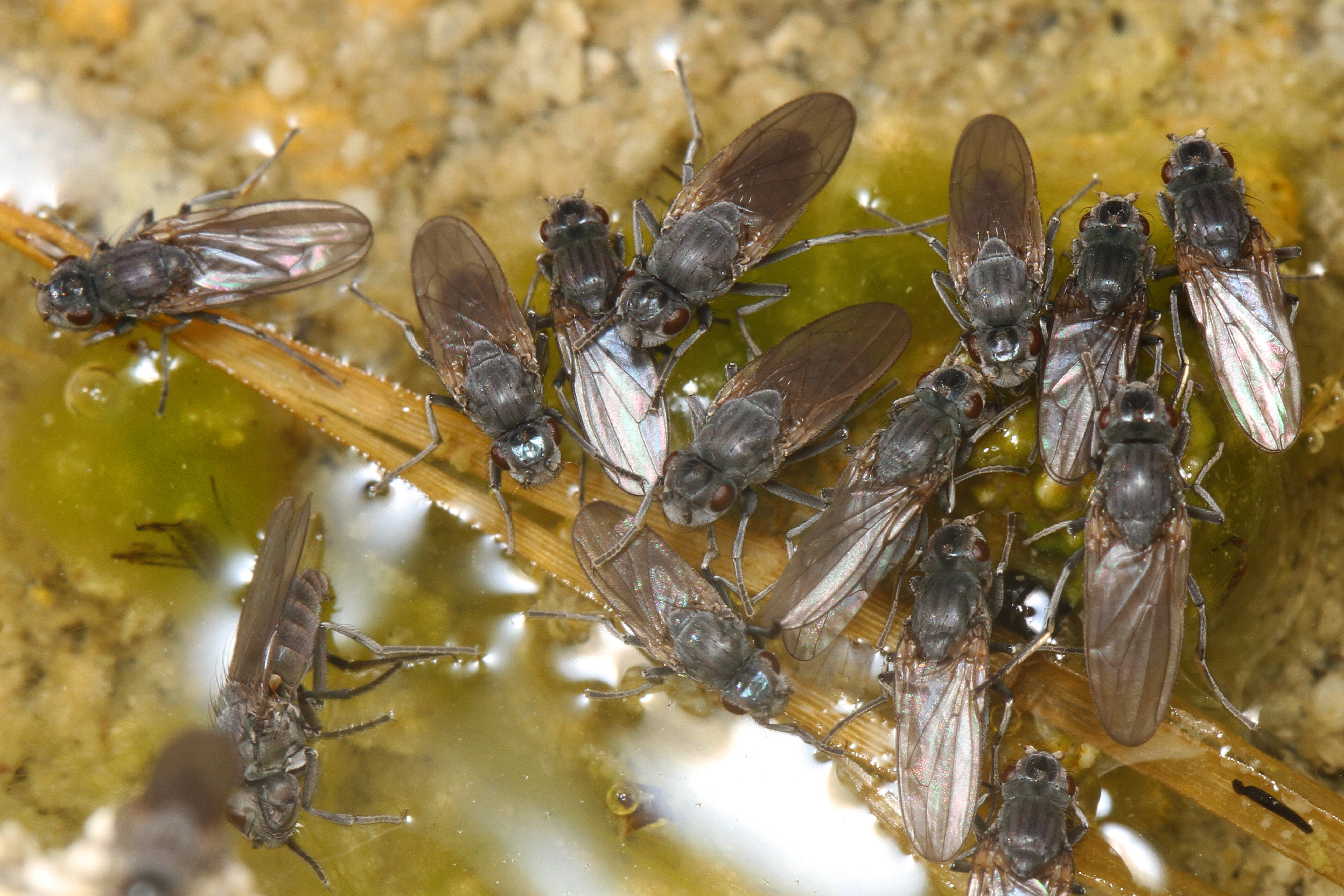 Alkali Fly - Ephydra hians, Mono Lake, California. closeup of some of the flies in the larger picture.